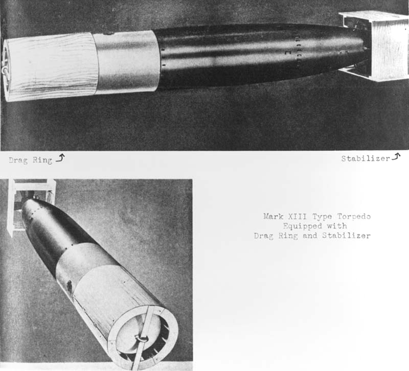 Two views of a U.S. Navy Mark XIII aircraft torpedo fitted with a wooden drag ring and stabilizer to improve air drop performance, circa 1944-1945. This is a halftoned image.